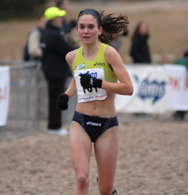 Adrienne Herzog during Silvestercross 2007.